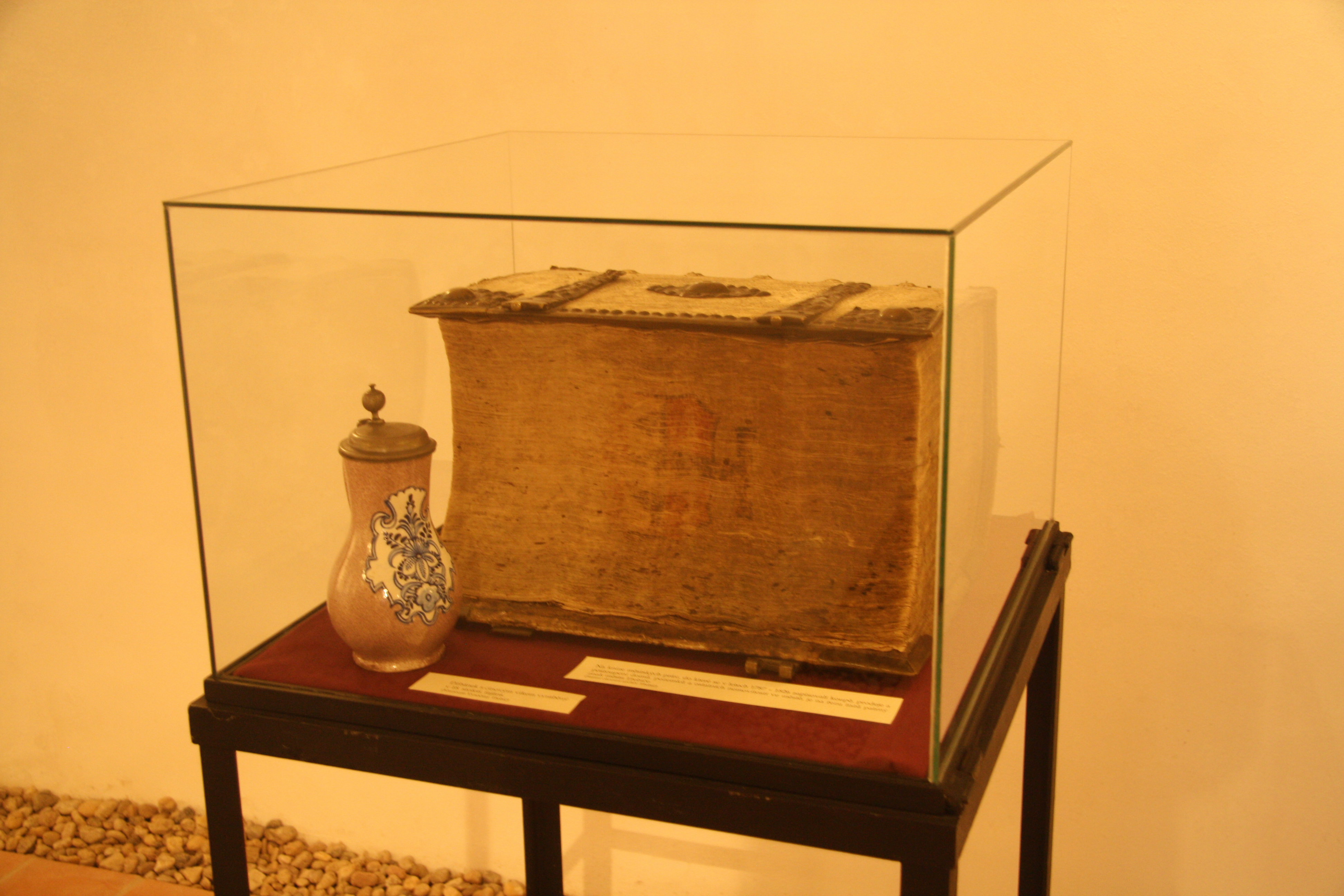 Exhibition box with book of Třebíč city laws in exhibition 680 let městských práv v Třebíči v dobových písemnostech in Muzeum Vysočiny Třebíč in Třebíč, Třebíč District.